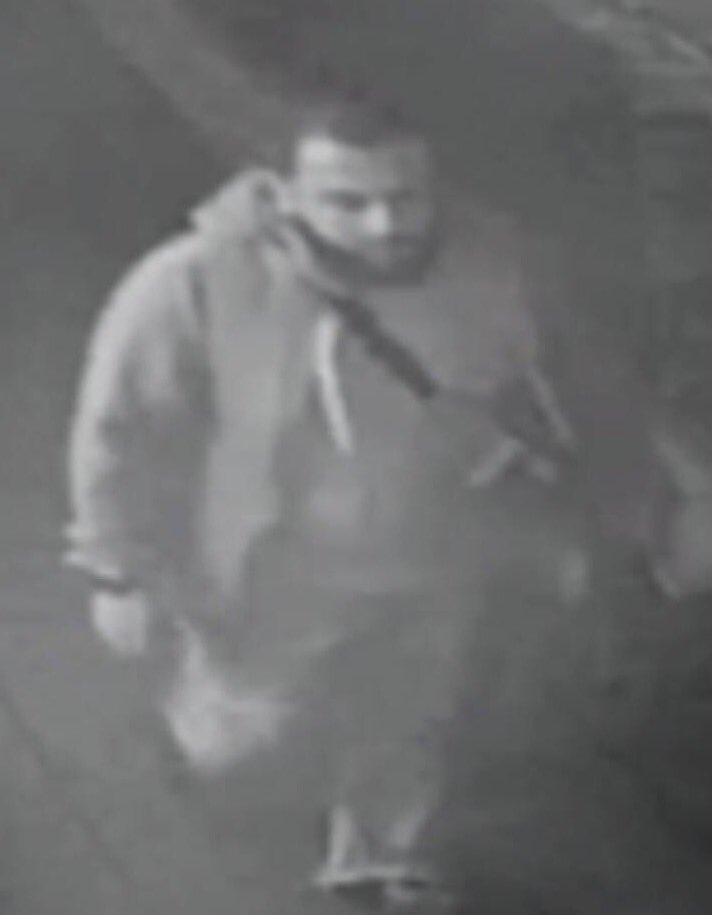 Suspect Ahmad Khan Rahami surveillance image